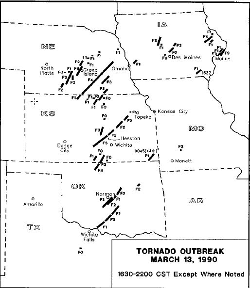 A map of the tornadoes in the March 1990 tornado outbreak showing path and rating.